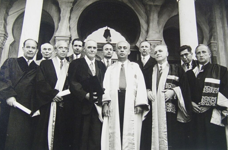 Nazim Terzioglu